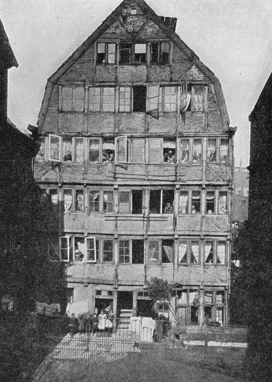 Published in Modern Music and Musicians, University Society, New York, 1918. No. 24 Specksgang, later renumbered to No. 60 Speckstraße, Hamburg, photographed in 1891. Brahms family lived behind the two double windows on the left at first floor level. The building was destroyed by bombing in 1943.[1] Originalphotogaphie heute im Besitz des Museums für Hamburgische Geschichte